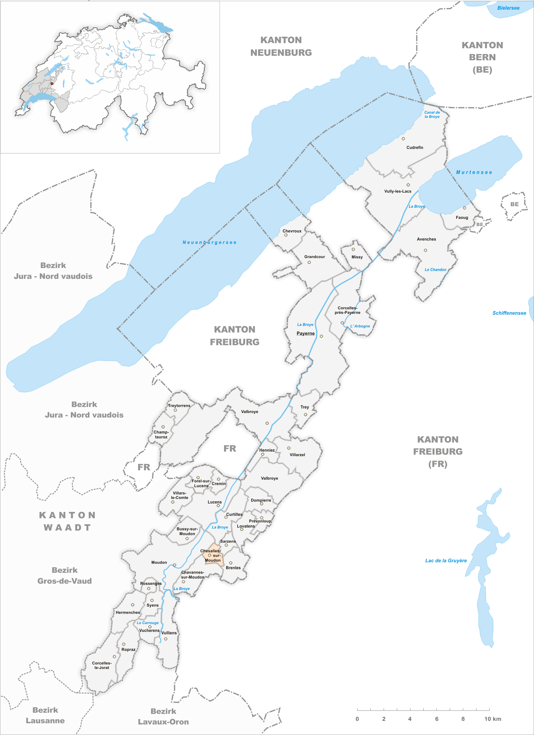 Municipality Chesalles-sur-Moudon